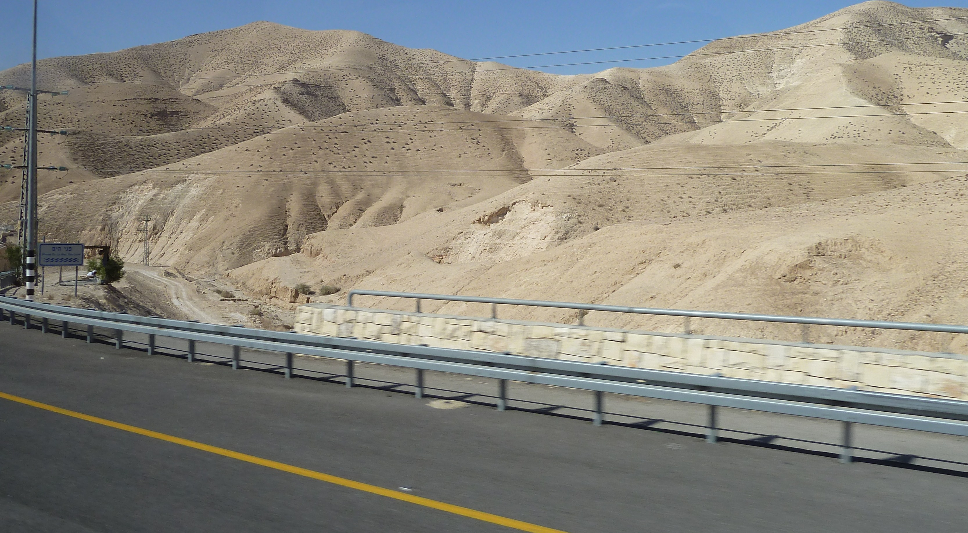 Sea level signs in the Judean Desert